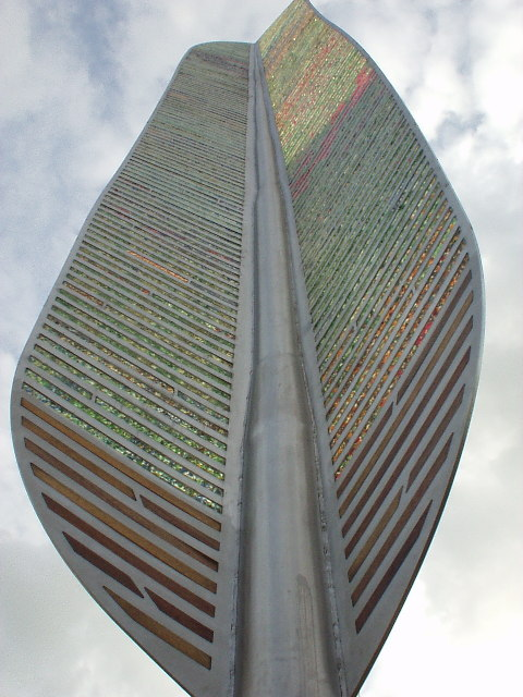 The Millennium Feather, Woolston, Southampton. The memorial in Woolston, Southampton, commemorating its connection with flight and sail.